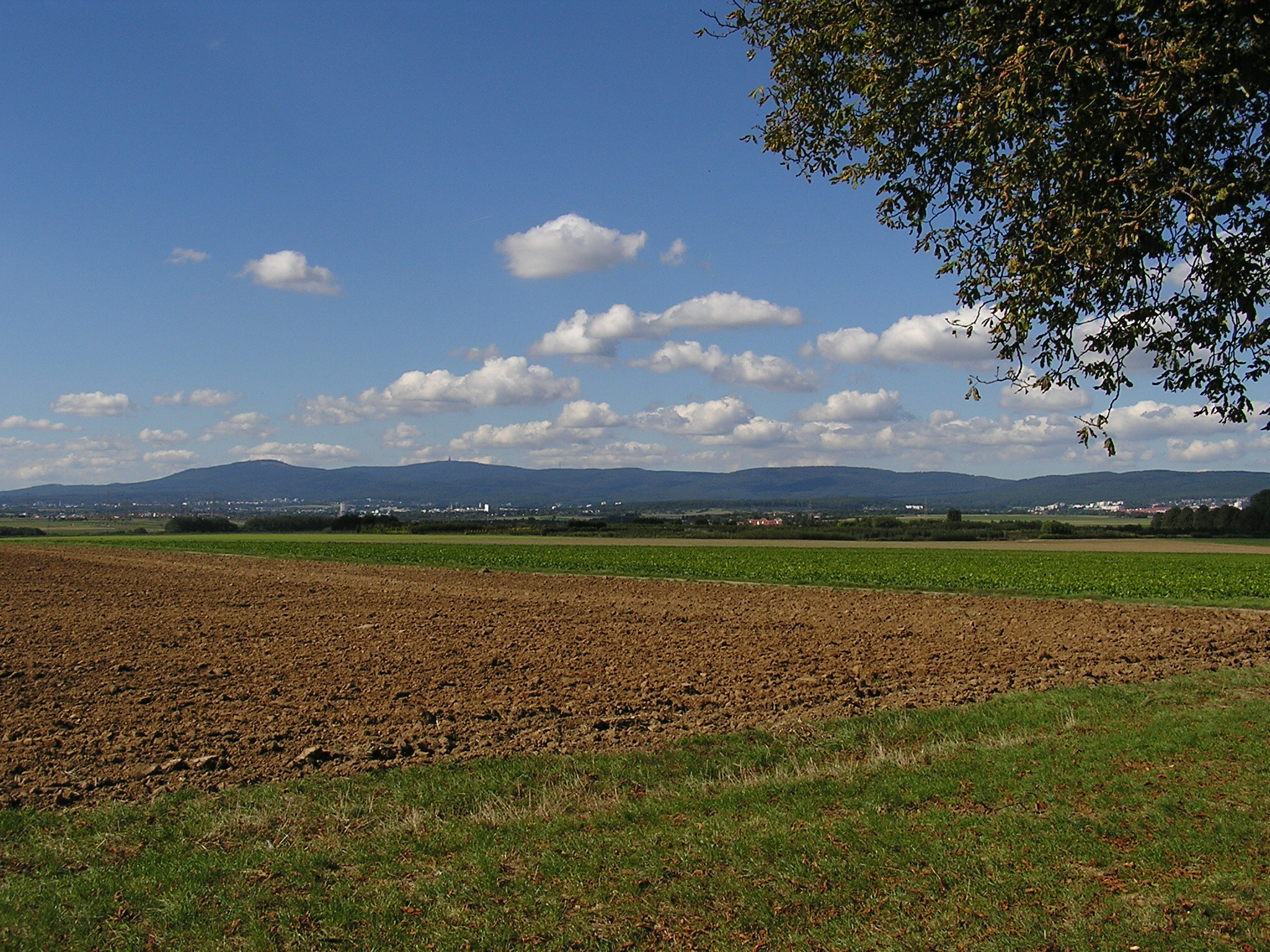 The Hohe Taunus, view from Karben Mountains from left to right: Altkönig, Großer Feldberg, Kolbenberg, Herzberg, Hesselberg, Steinkopf